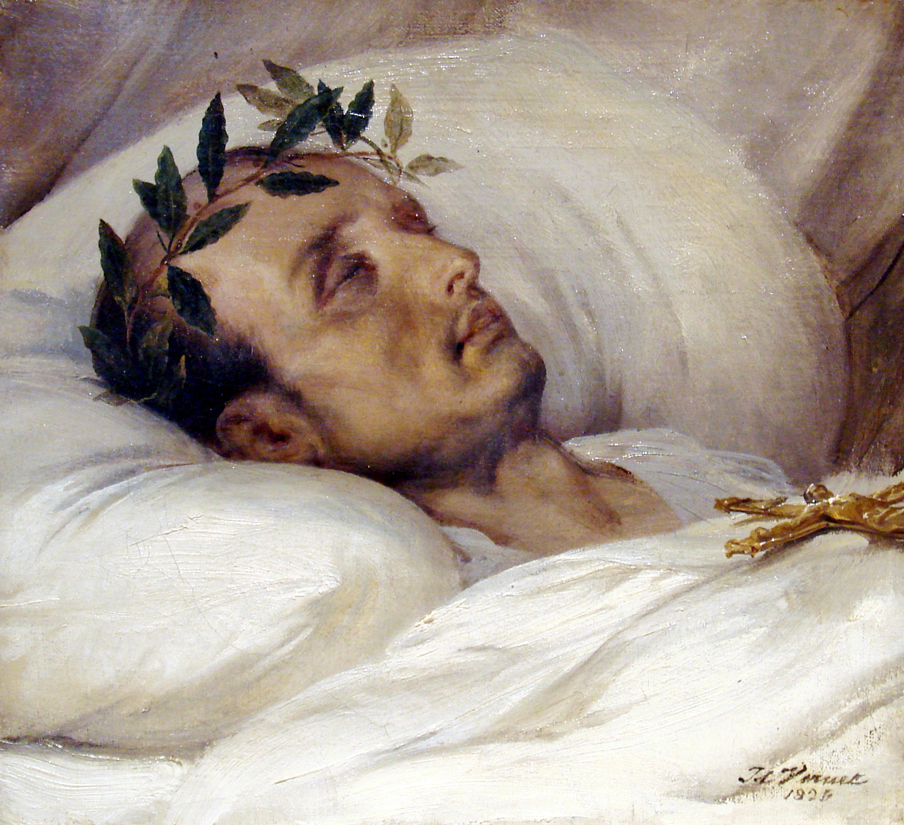 Napoleon_sur_son_lit_de_mort_Horace_Vernet_1826